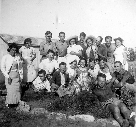 maccabi 1938 Netanya